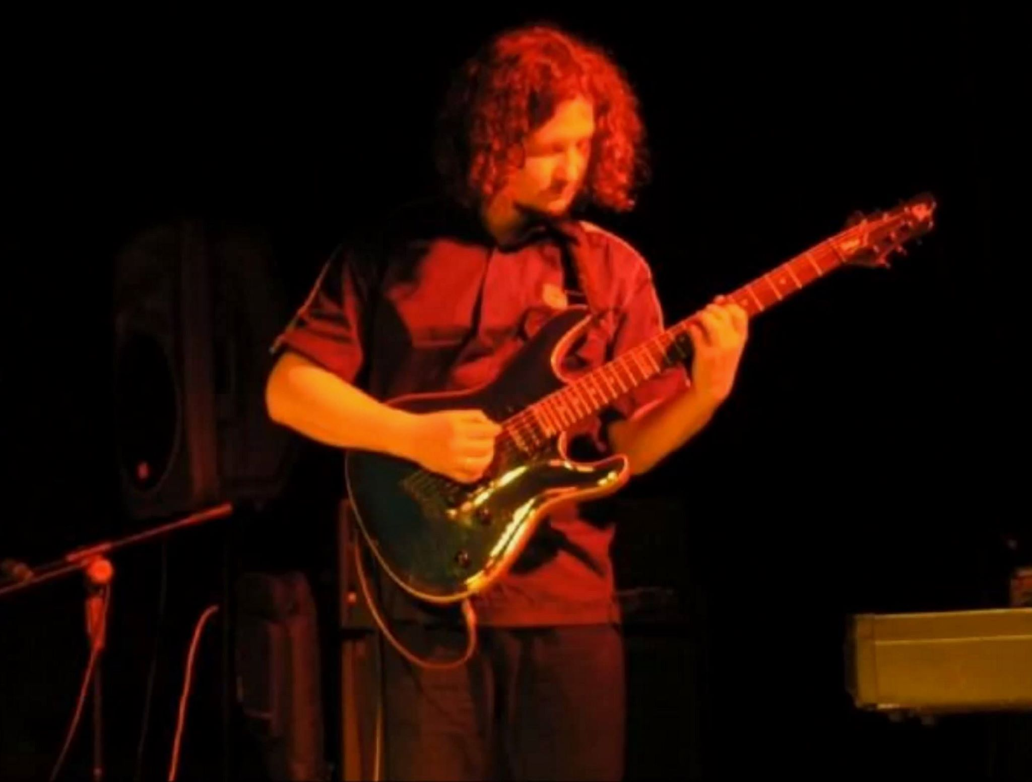 Amaryllis band